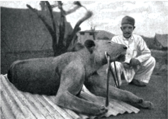 Th second man-eater from Tsavo shot by Lieutenant-Colonel Patterson,now known as FMNH 23969.